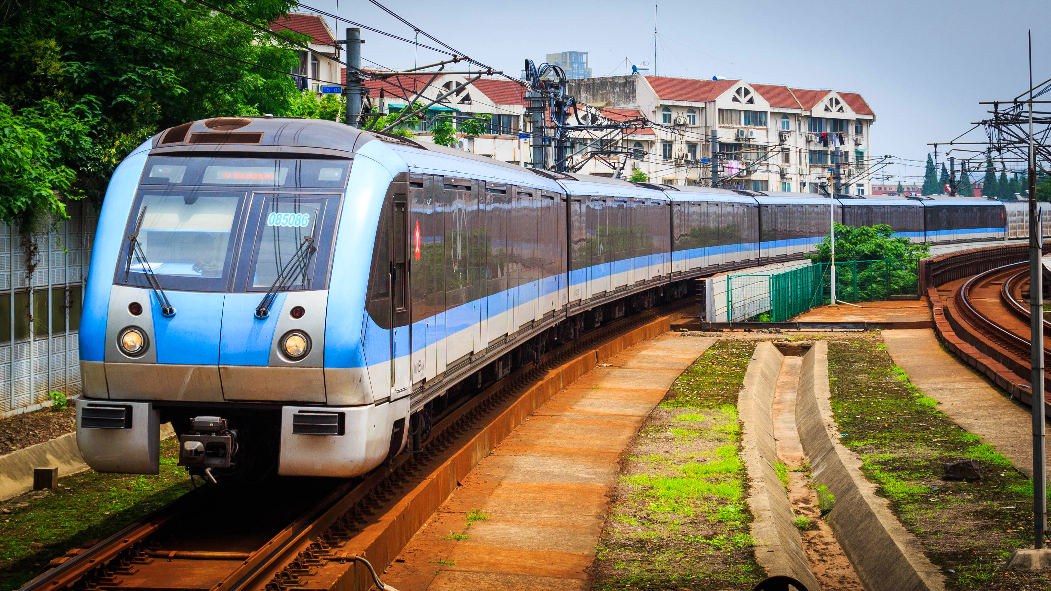 One set of Nanjing Metro Line 1 train is approaching Hongshan Zoo station.